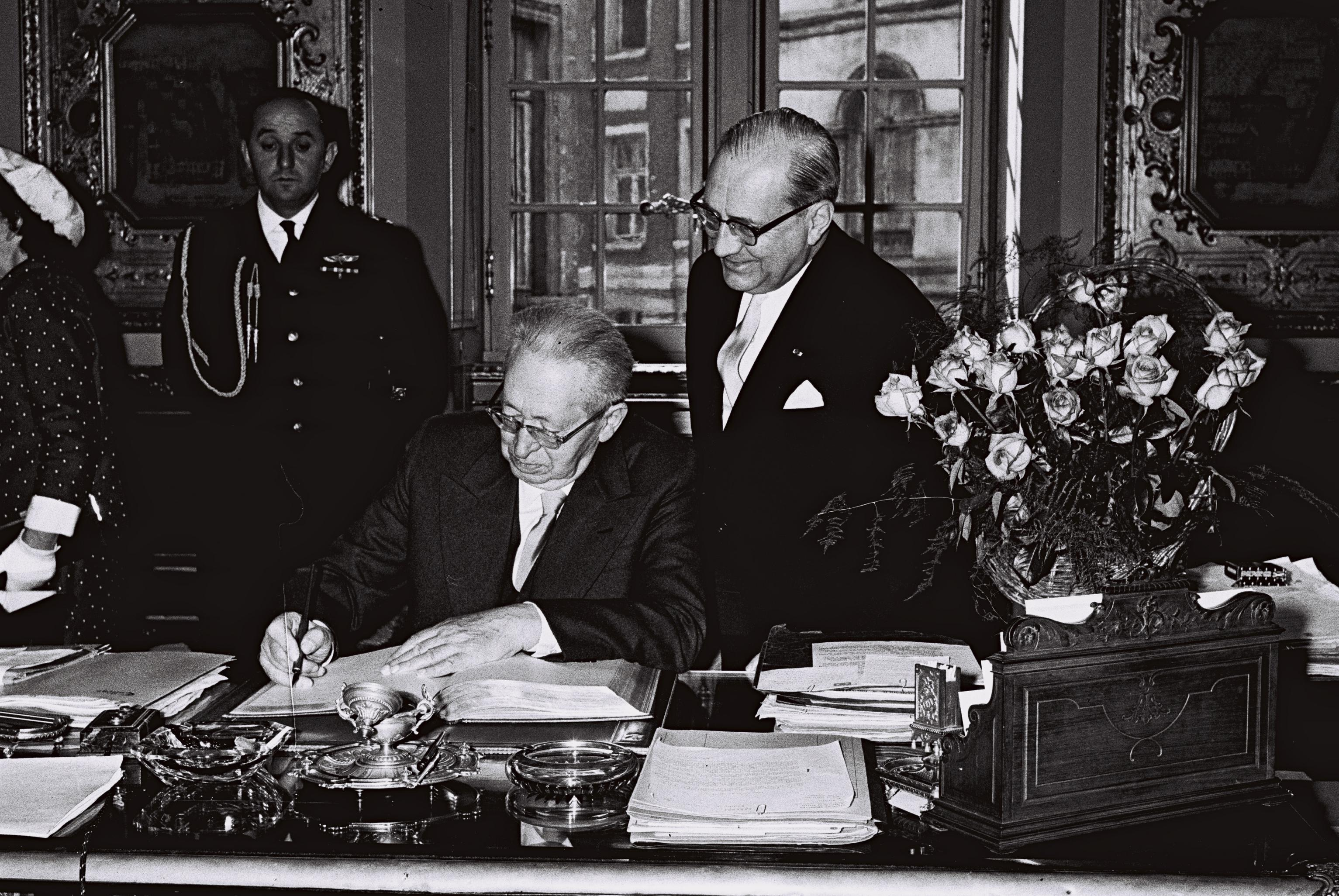 President of Israel, Ben Zvi, signing the visitors book at the Brussels Municipality.